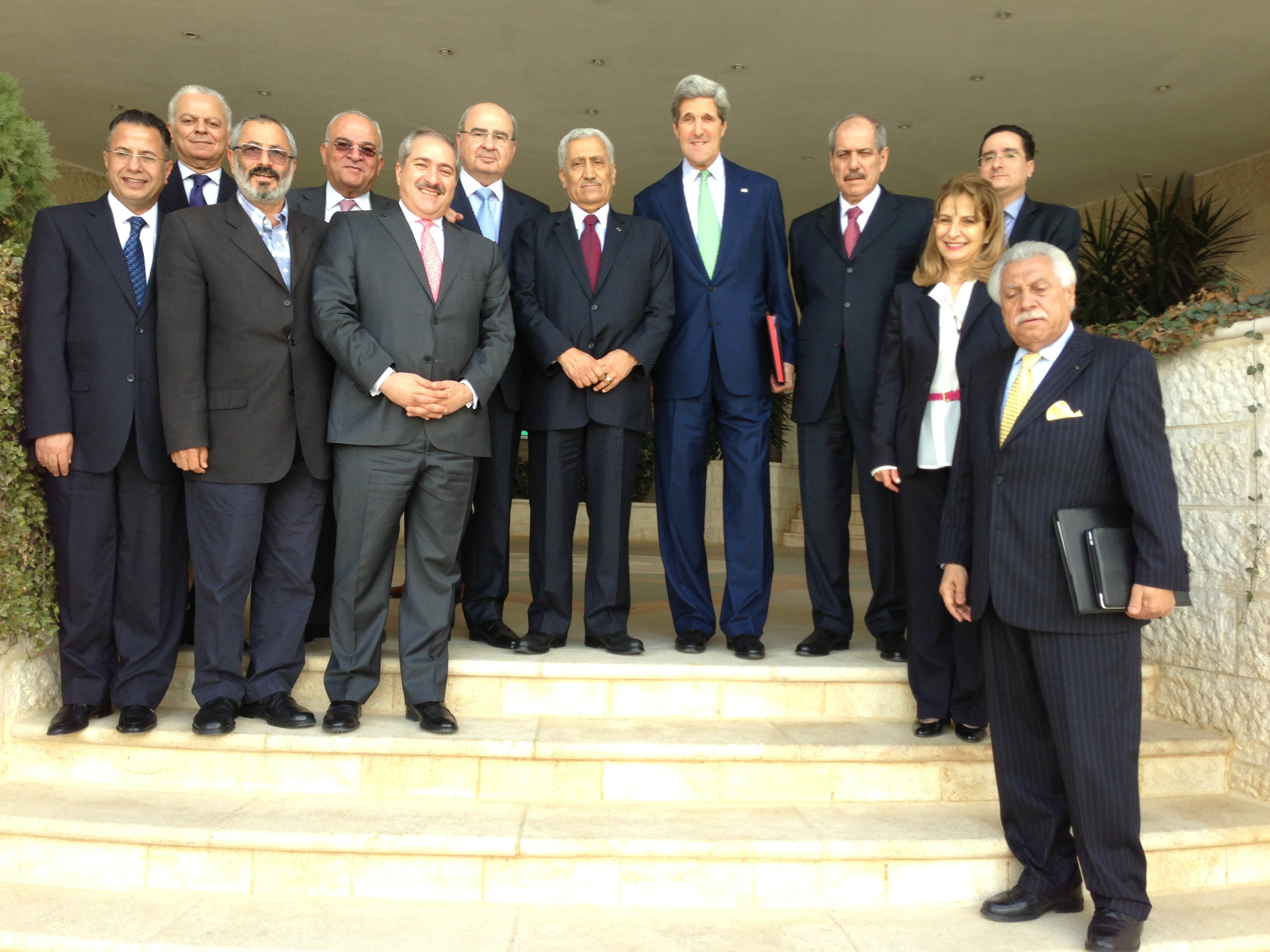 U.S. Secretary of State John Kerry poses with Jordanian Prime Minister Abdullah Ensour, Foreign Minister Nasser Judeh and other Jordanian government officials after a lunch meeting at the Ministry of Foreign Affairs in Amman on March 23, 2013 [State Department Photo/Public Domain].